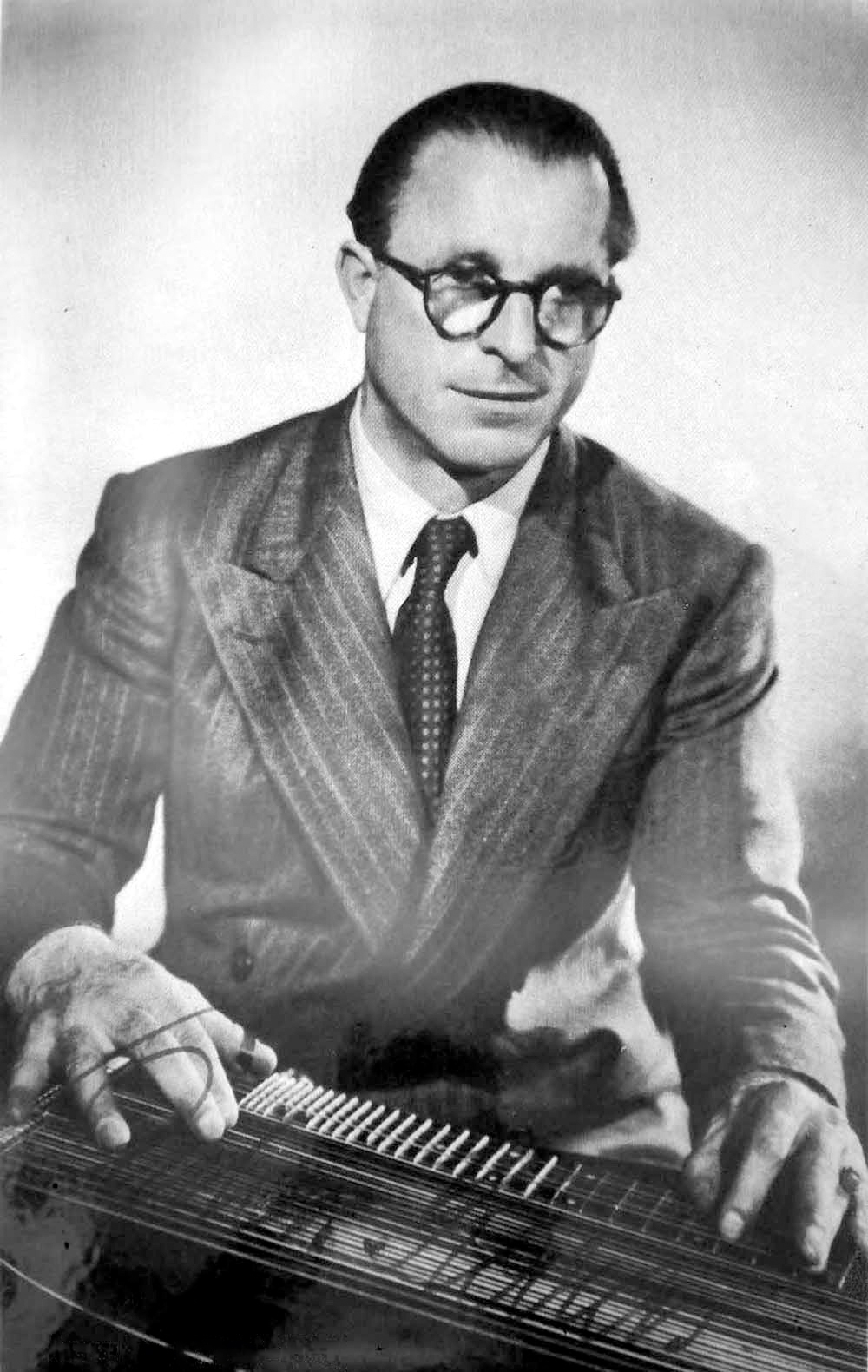 Anton Karas portrait from commemorative plaque, in Wien 20., Leystraße 46, in front of the house where Karas had spent the first 19 years of his life. The plaque was set up due to Karas' 100th birthday. The original is an autograph card from the collection of Karas' grandson Werner Chudik. According to Austrian law, this digitally edited part of the quoted plaque should be in the public domain.